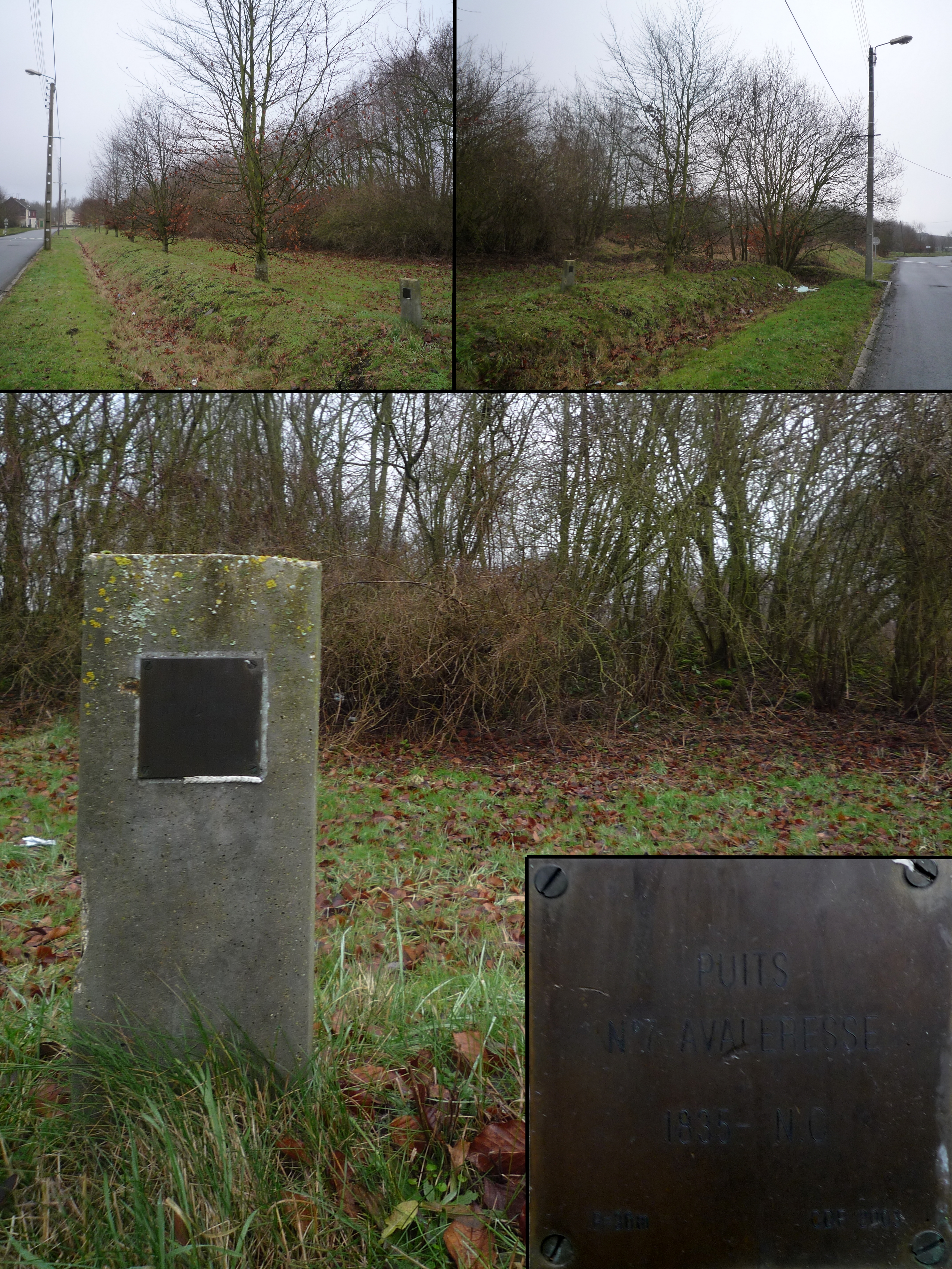 Pit n° 7 Avaleresse, Compagnie des mines de Douchy, Lourches, Nord, Nord-Pas-de-Calais, France.